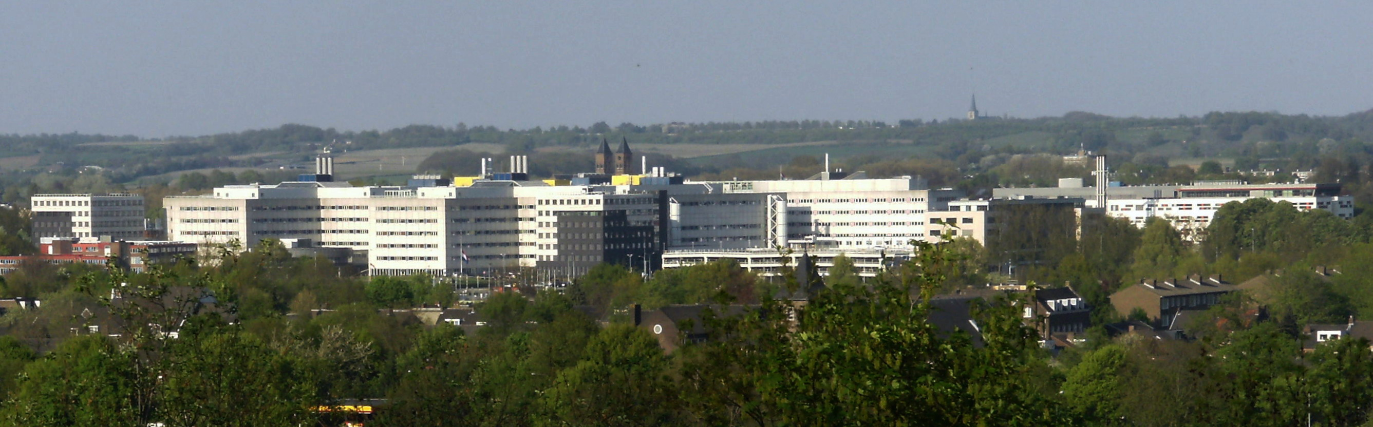 Maastricht, the Netherlands. View of Maastricht University Hospital in Randwyck from mount Sint Pietersberg (cropped version of original image uploaded by Mark Ahsmann).